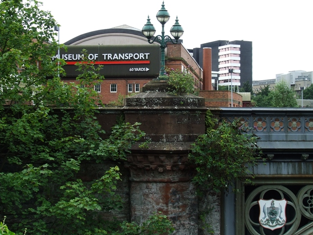 Glasgow Museum of Transport. Within the Kelvin Hall complex, accessed from Bunhouse Road. Part of partick Bridge can be seen. See also 44919 & 545300